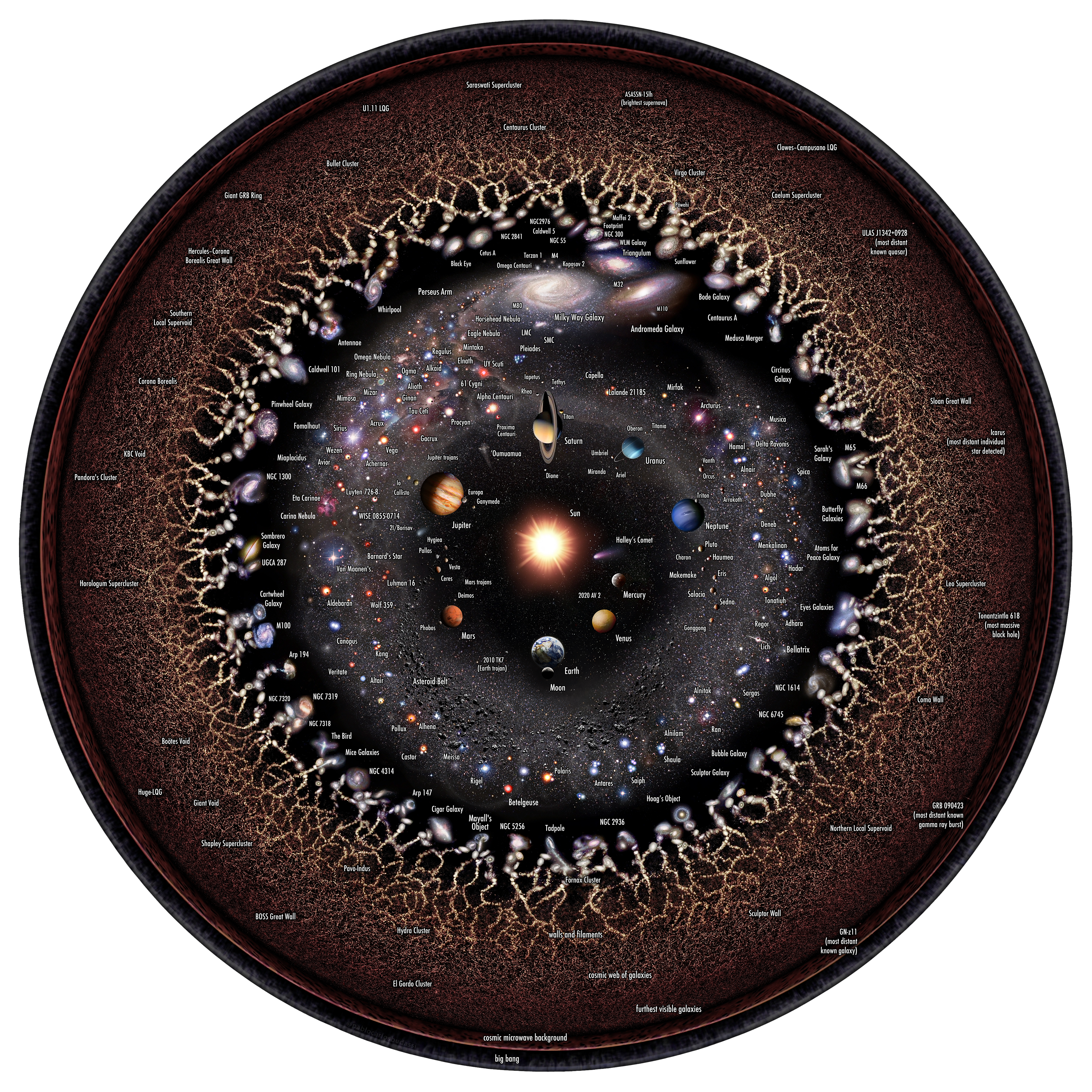 Logarithmic scale conception of the observable universe with the Solar System at the center, inner and outer planets, Kuiper belt objects, Alpha Centauri, Perseus Arm, Milky Way galaxy, Andromeda galaxy, nearby galaxies, Cosmic Web, Cosmic microwave radiation and Big Bang's invisible plasma on the edge. Distance from Earth increases exponentially from the center to the edge. Celestial bodies are shown enlarged to appreciate their shapes.